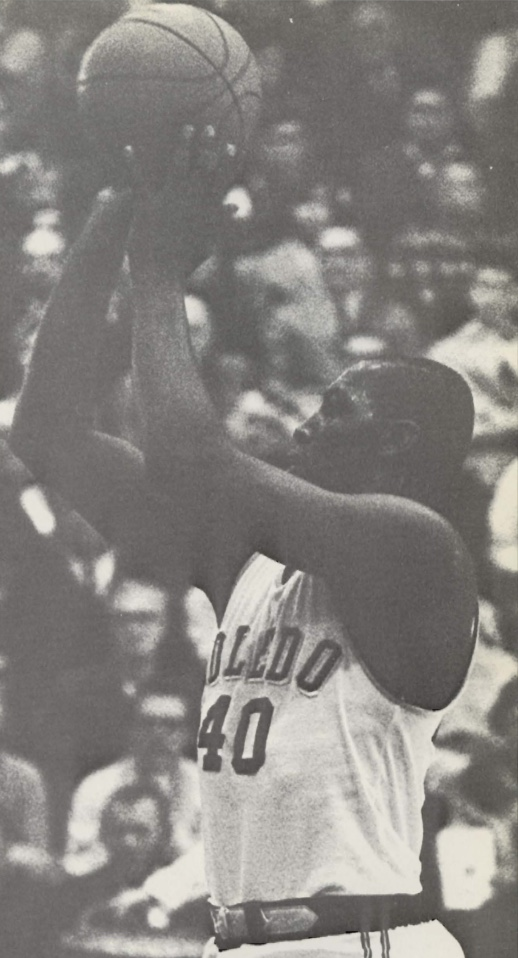 University of Toledo Rockets basketball player John Brisker from the 1967 “Blockhouse” yearbook.